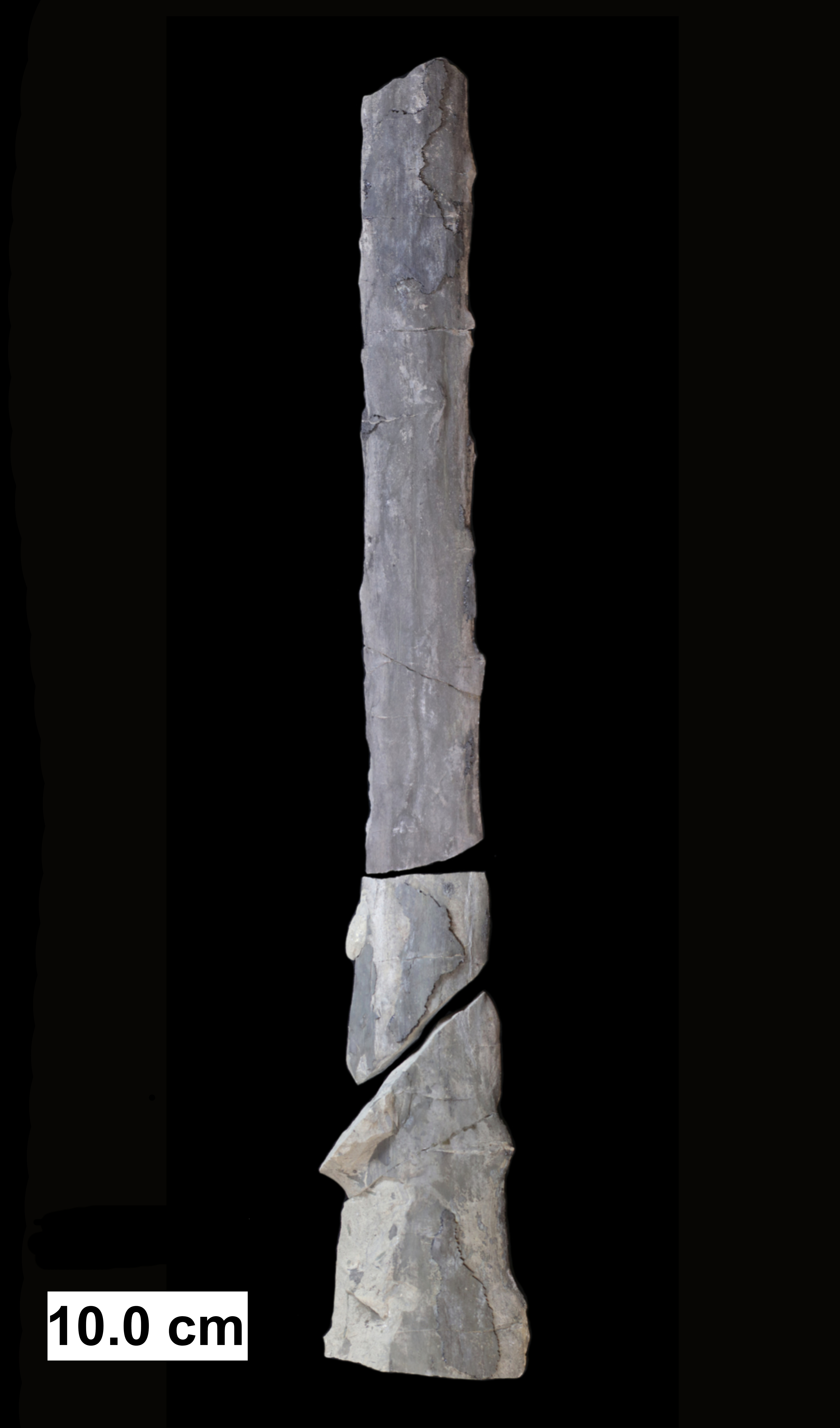 The Middle Devonian terrestrial fungus Prototaxites milwaukeensis (Penhallow, 1908); Milwaukee Formation; Berthelet Member; Milwaukee County, Wisconsin; collected by Charles E. Monroe; MPM 402; holotype; photograph originally published in K.C. Gass, J. Kluessendorf, D.G. Mikulic, and C.E. Brett, 2019. Fossils of the Milwaukee Formation: A Diverse Middle Devonian Biota from Wisconsin, USA. Siri Scientific Press, Manchester, UK.